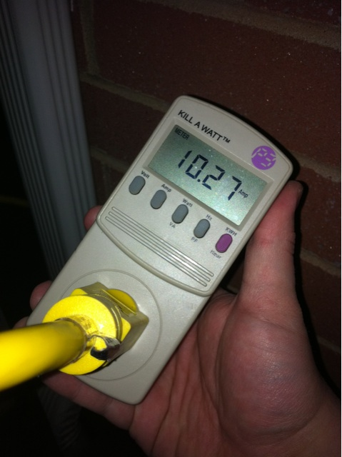 A Kill-a-Watt meter from P3 International displays a current draw from a Christmas display of 10.27amp.